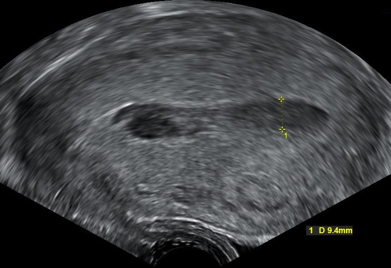 Transvaginal ultrasonography of a hematometra in the postpartum period. The cervix is located to the left in the image, and the fundus is located to the right.